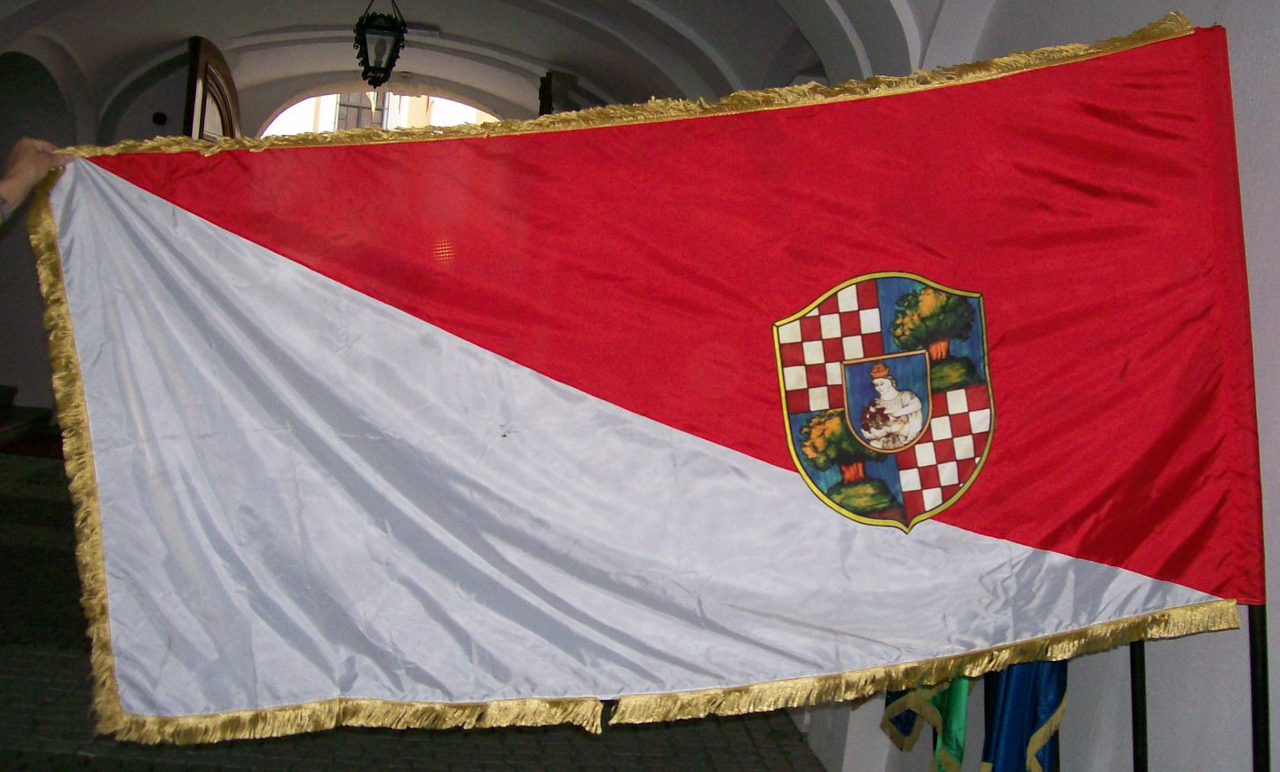 Flag of Municipality of Jalžabet, Varaždin County, Croatia ( reverse side of the flag)